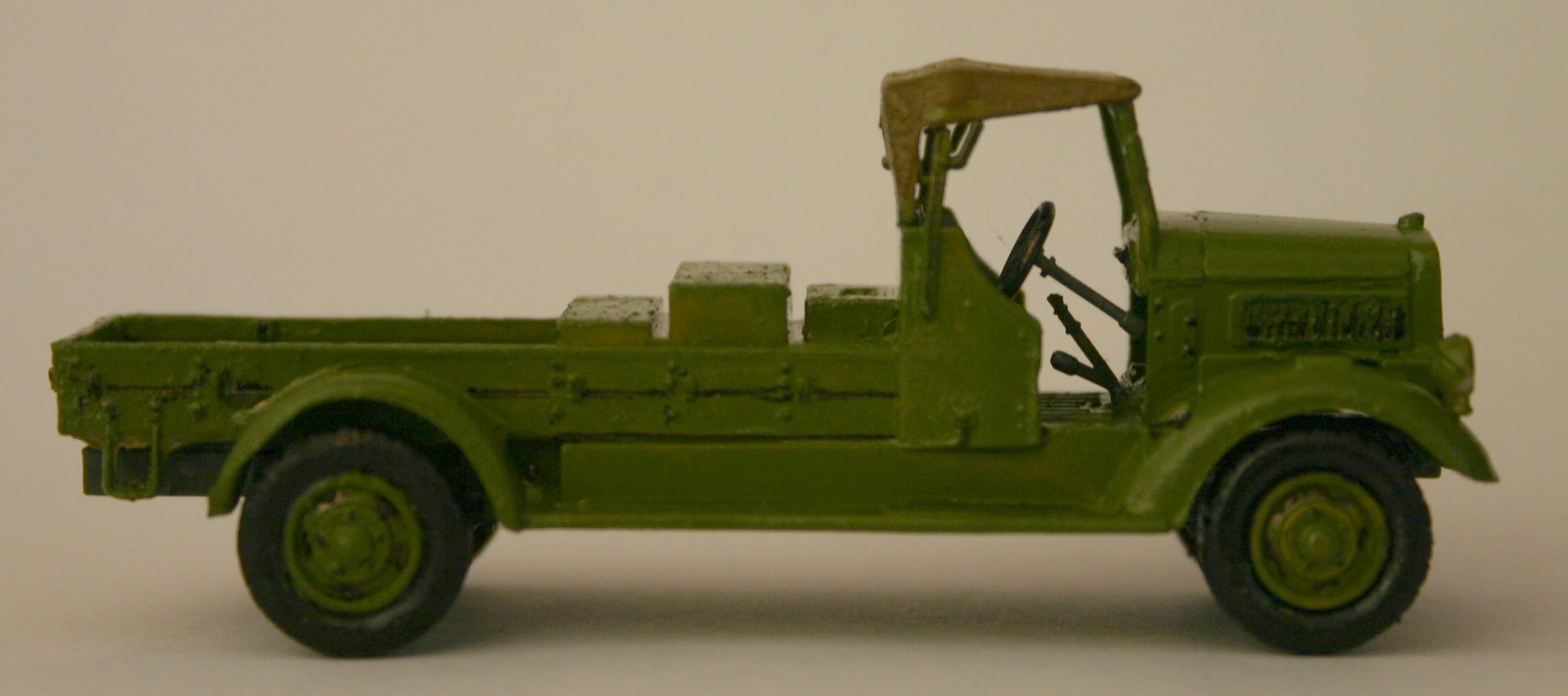 A 1:72 scale model of the Toyota KC truck as used on Japanese military airfields in late World War II, minus the airplane starting equipment. Model manufactured by Hasegawa as the "Starter Truck Toyota GB". Built by Wayne and Christo Stephenson in November 2007. Photographed by Wayne Stephenson in November 2007.